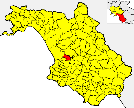 Locator map of the municipality of Trentinara (red) within the Province of Salerno